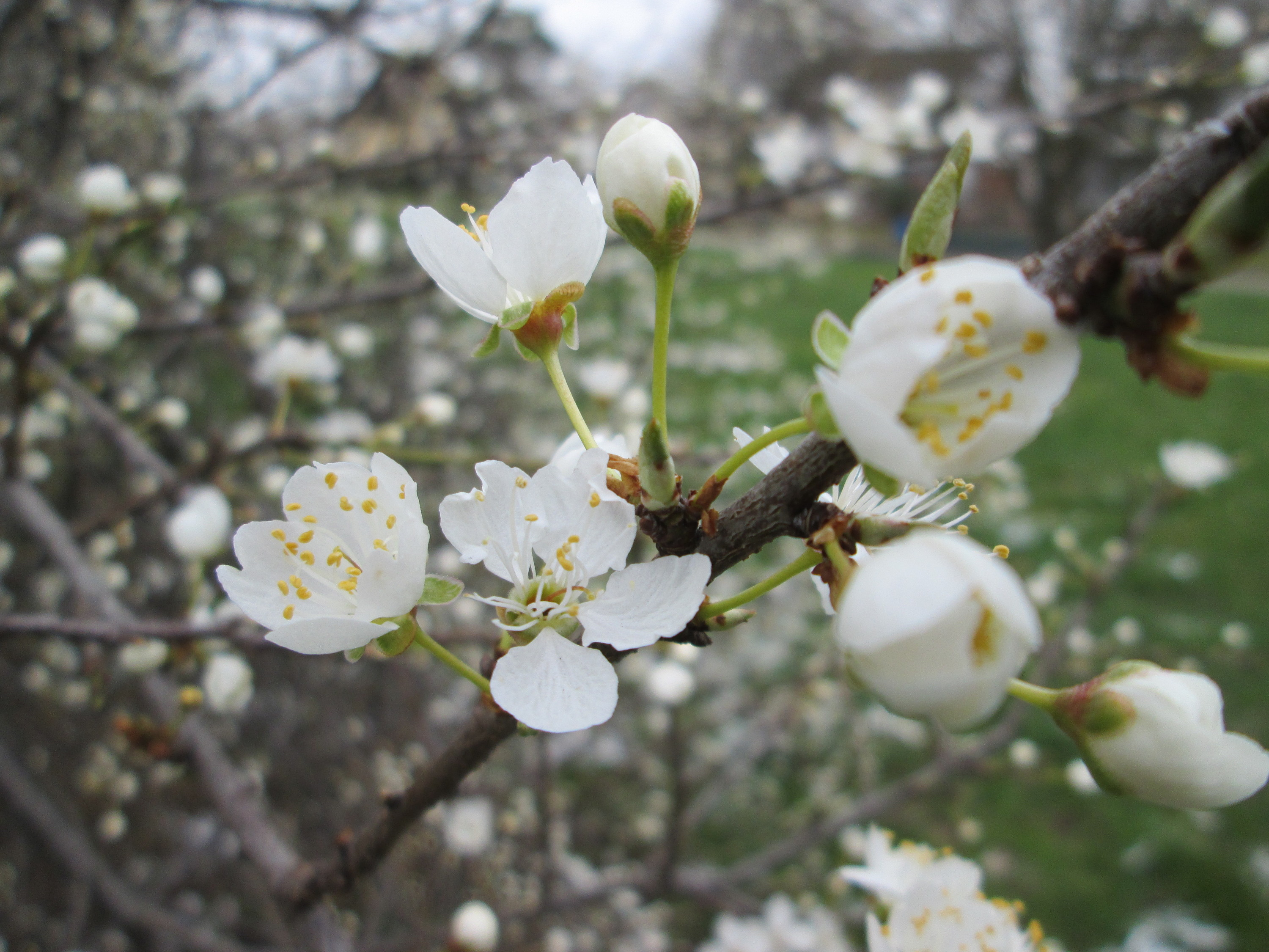 Prunus cerasifera, Spring 2018 in Landesgartenschaupark Hockenheim.